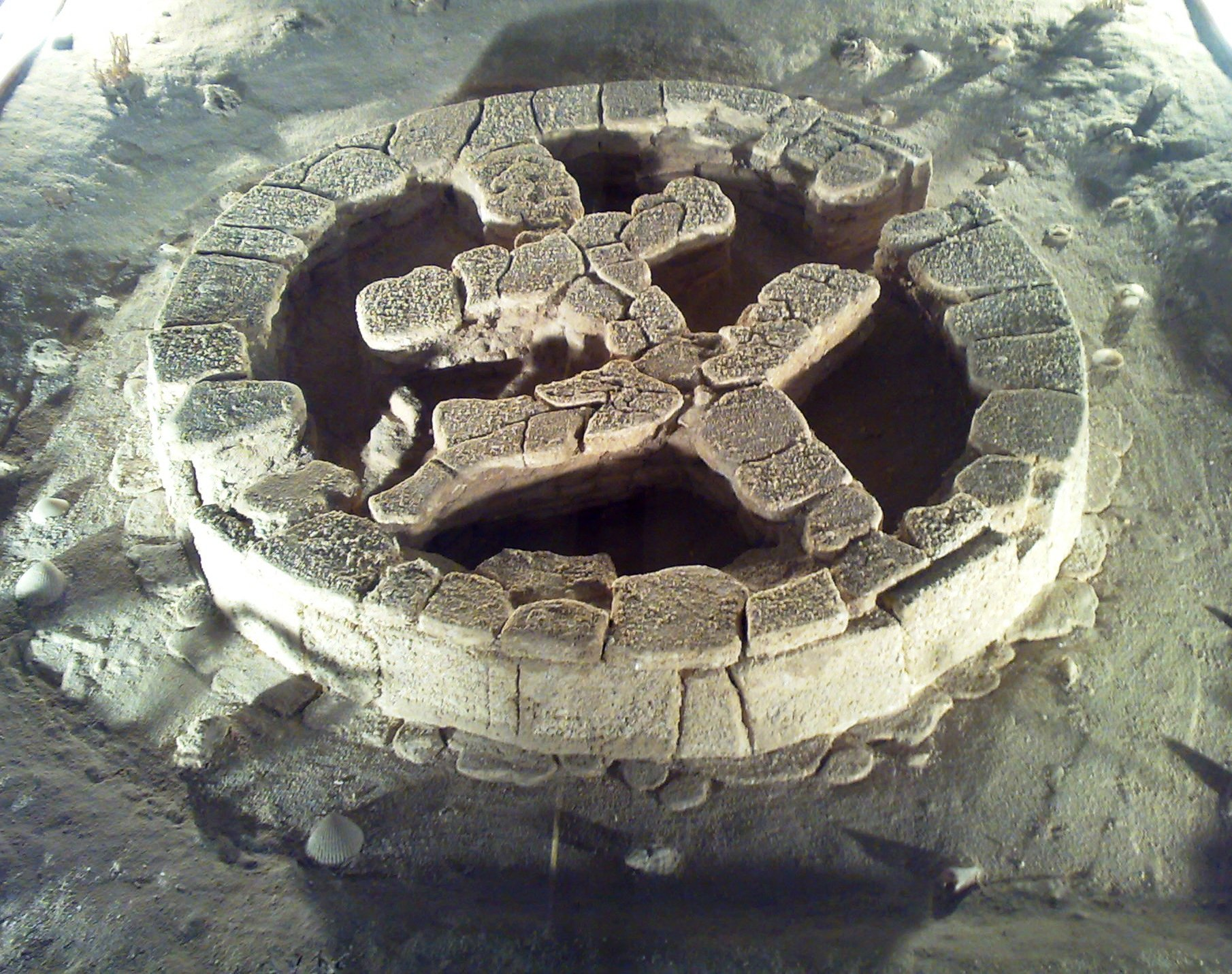 Model of a 6x6 m grave in Al Sufouh, around 2500-2000 BC, at display in the Dubai Museum (Al Fahidi Fort), UAE